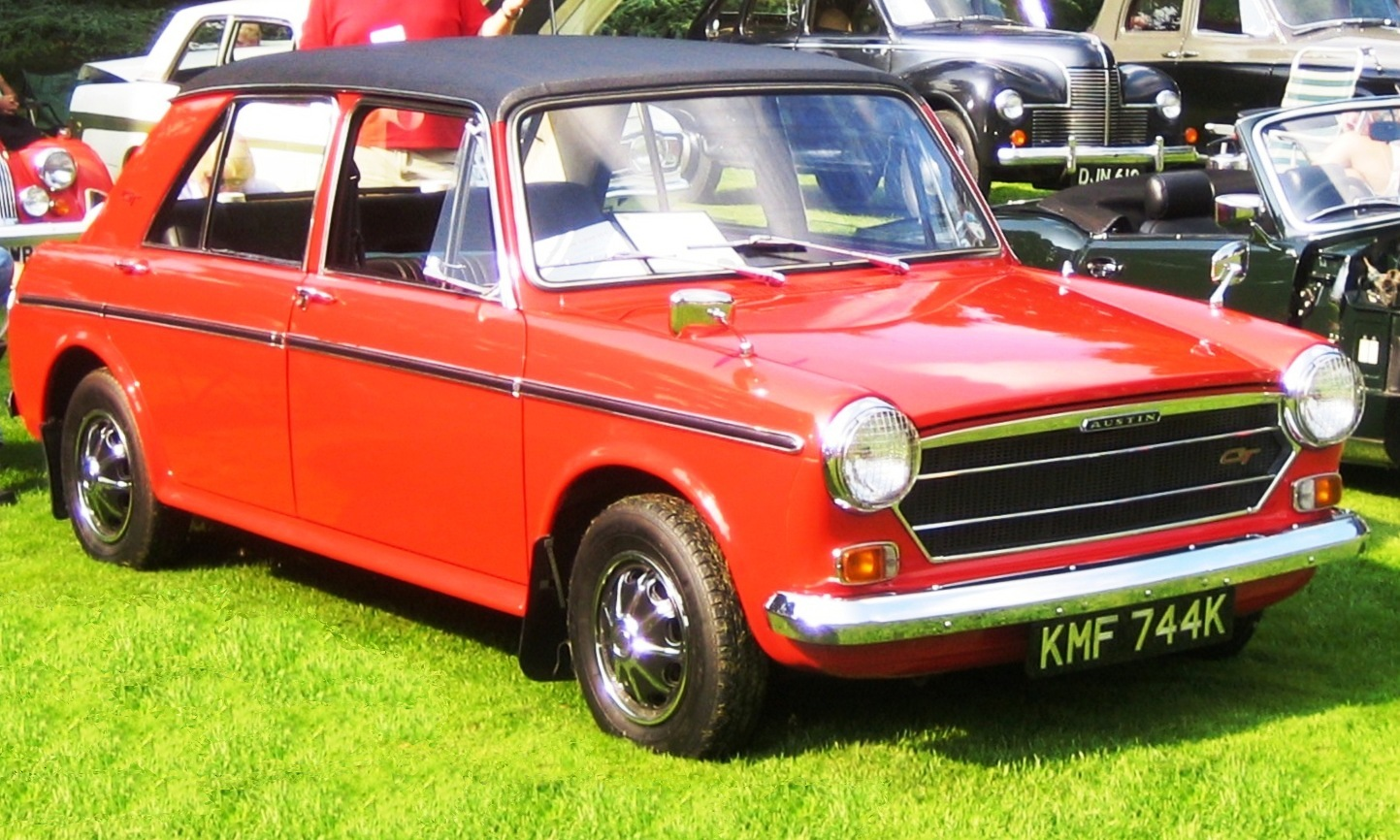 Austin 1300 GT 1971 in north Essex at Oldtimer show